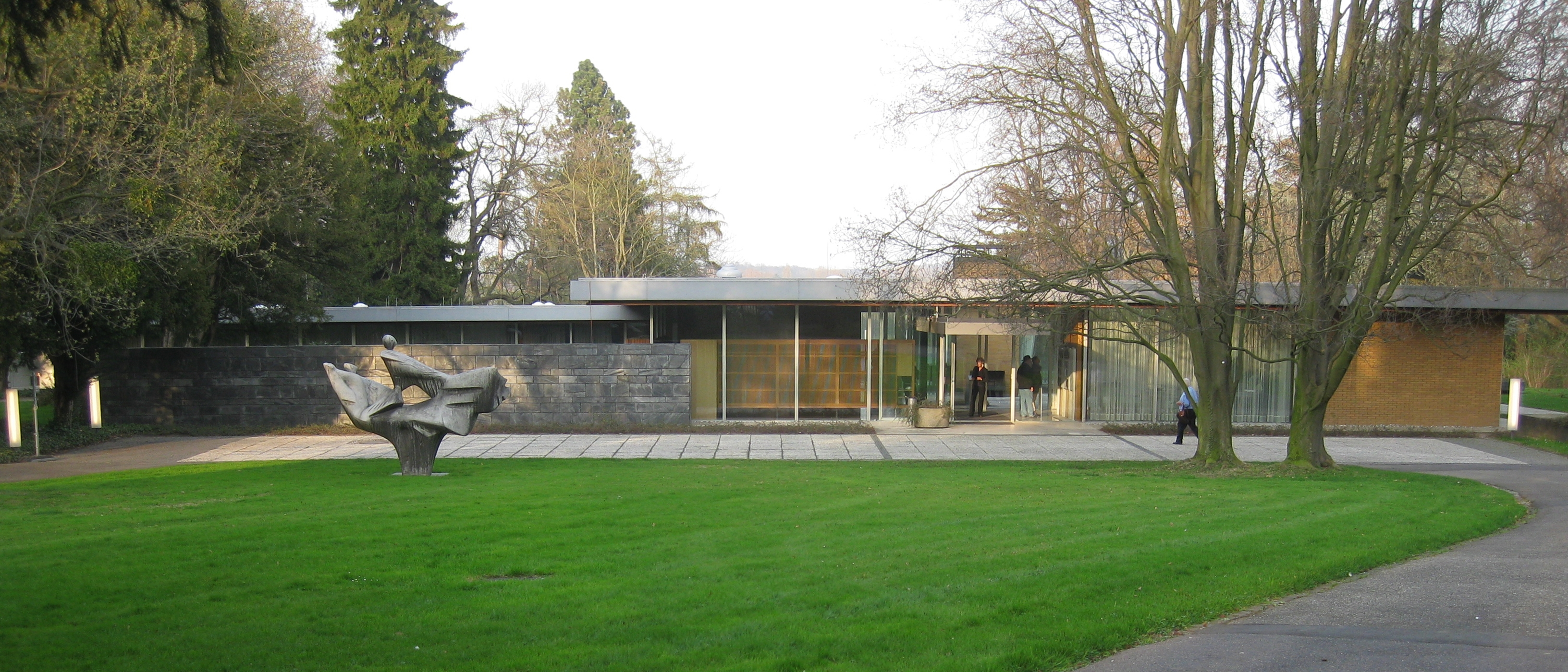 Germany, Bonn: the former chancellor's bungalow; entrance.